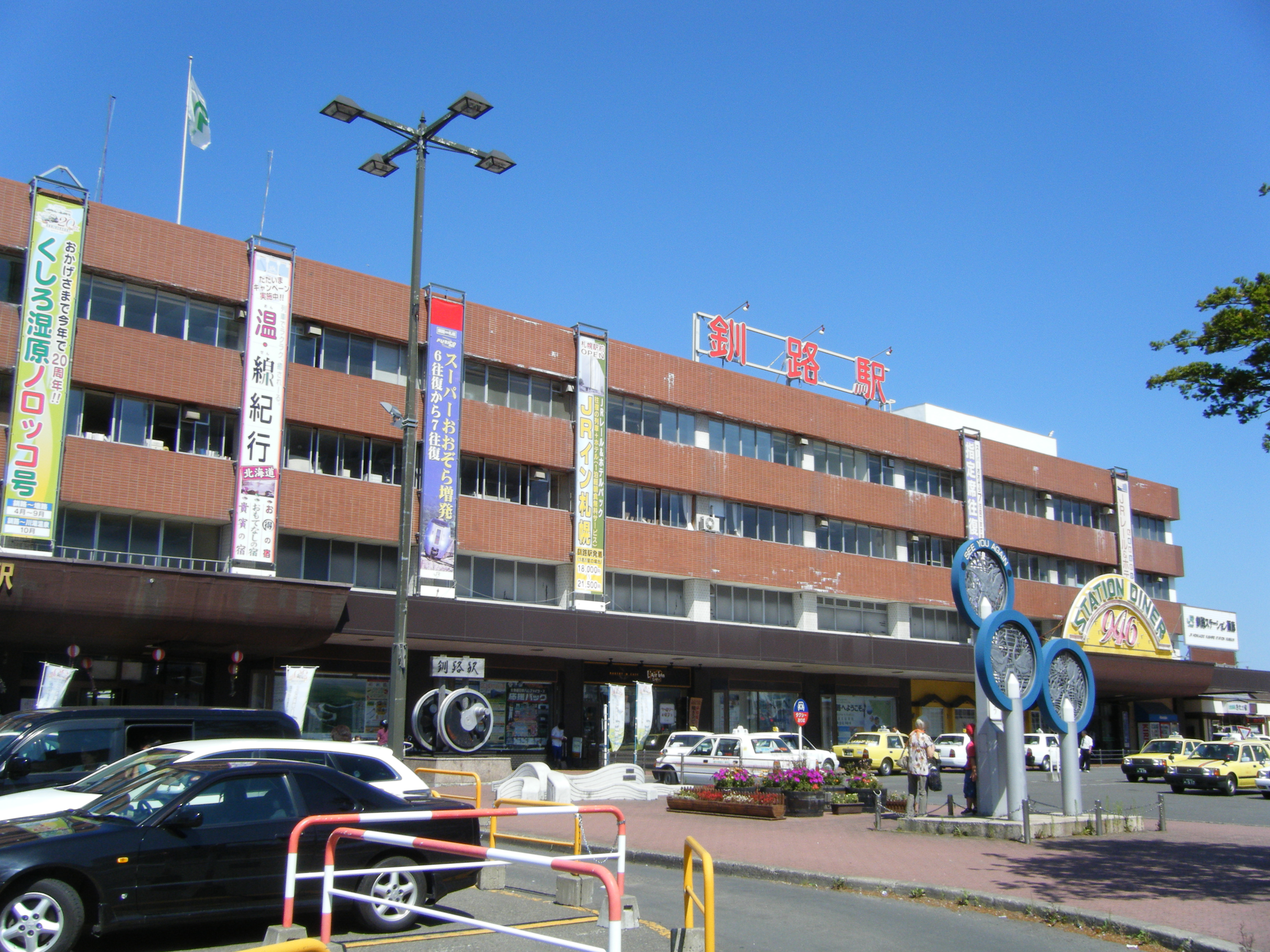 Kushiro Station in Hokkaido